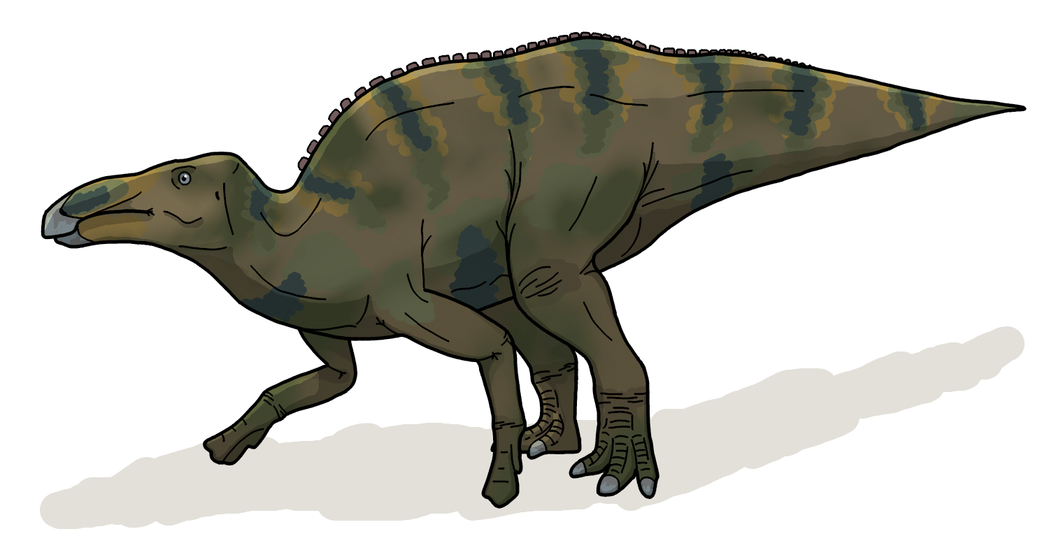 Life restoration of Shantungosaurus giganteus based on skeletal remains and soft tissue of closely related hadrosaur Edmontosaurus